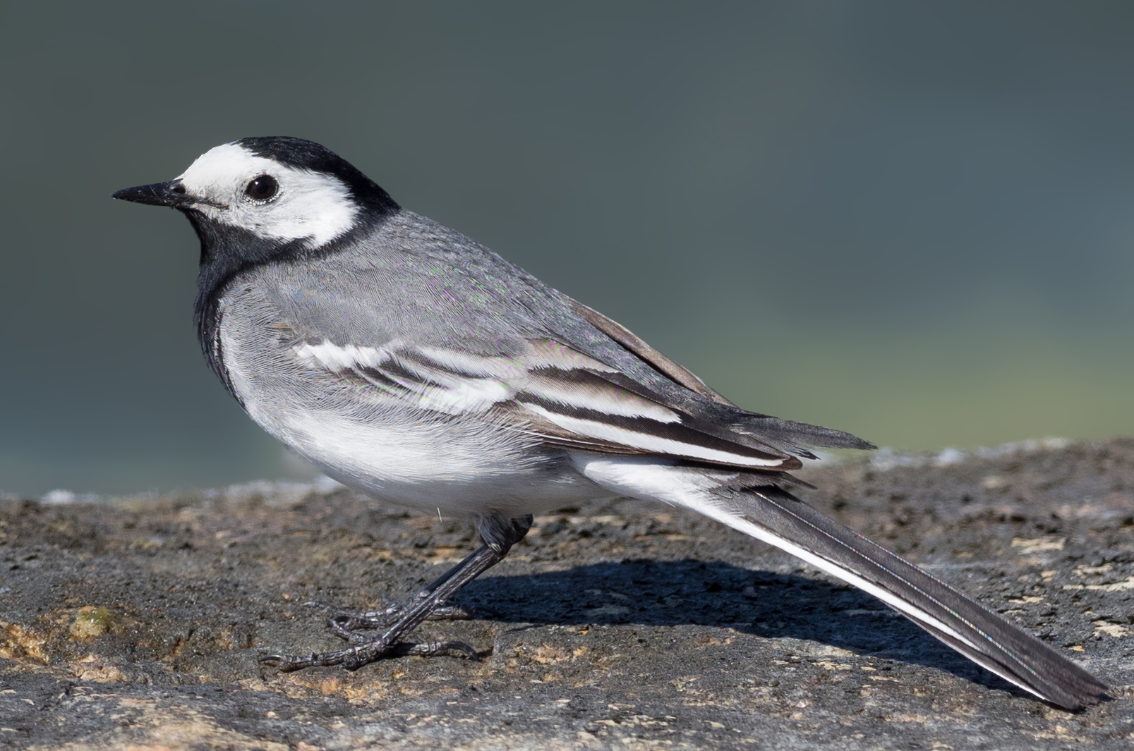 Motacilla alba alba 2016